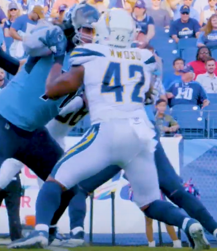 Uchenna Nwosu 2019. Timely 3rd Down Conversions vs. Chargers | Beneath the Surface, ~ 00:48.